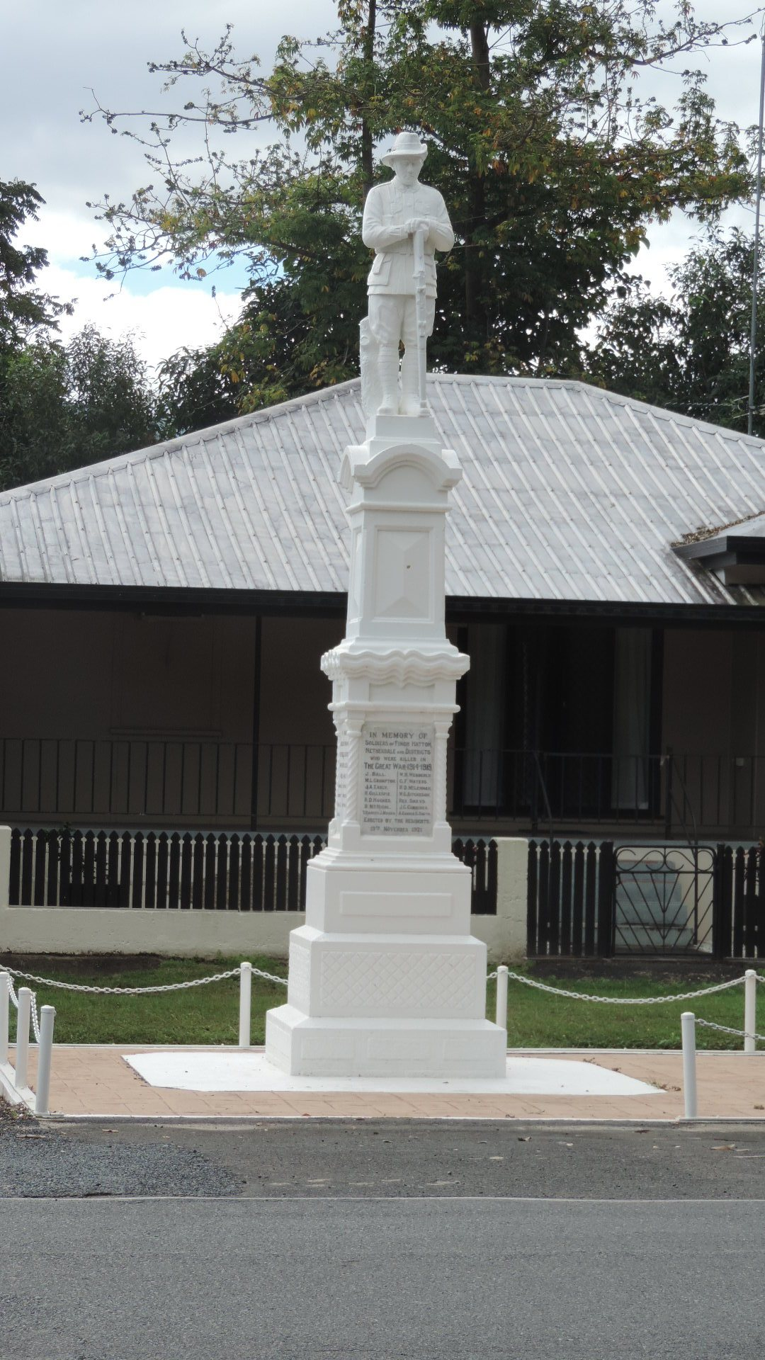 War memoral, Finch Hatton, 2016